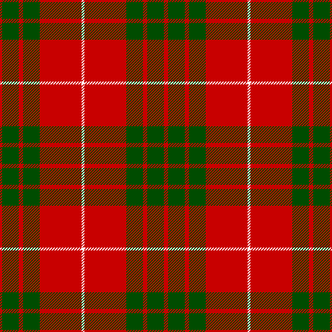 Crawford tartan, as published in the Vestiarium Scoticum. This tartan is derived on the plate, not the text of the Vestiarium Scoticum. Modern thread count: R6 g24 R6 G24 R60 W4.